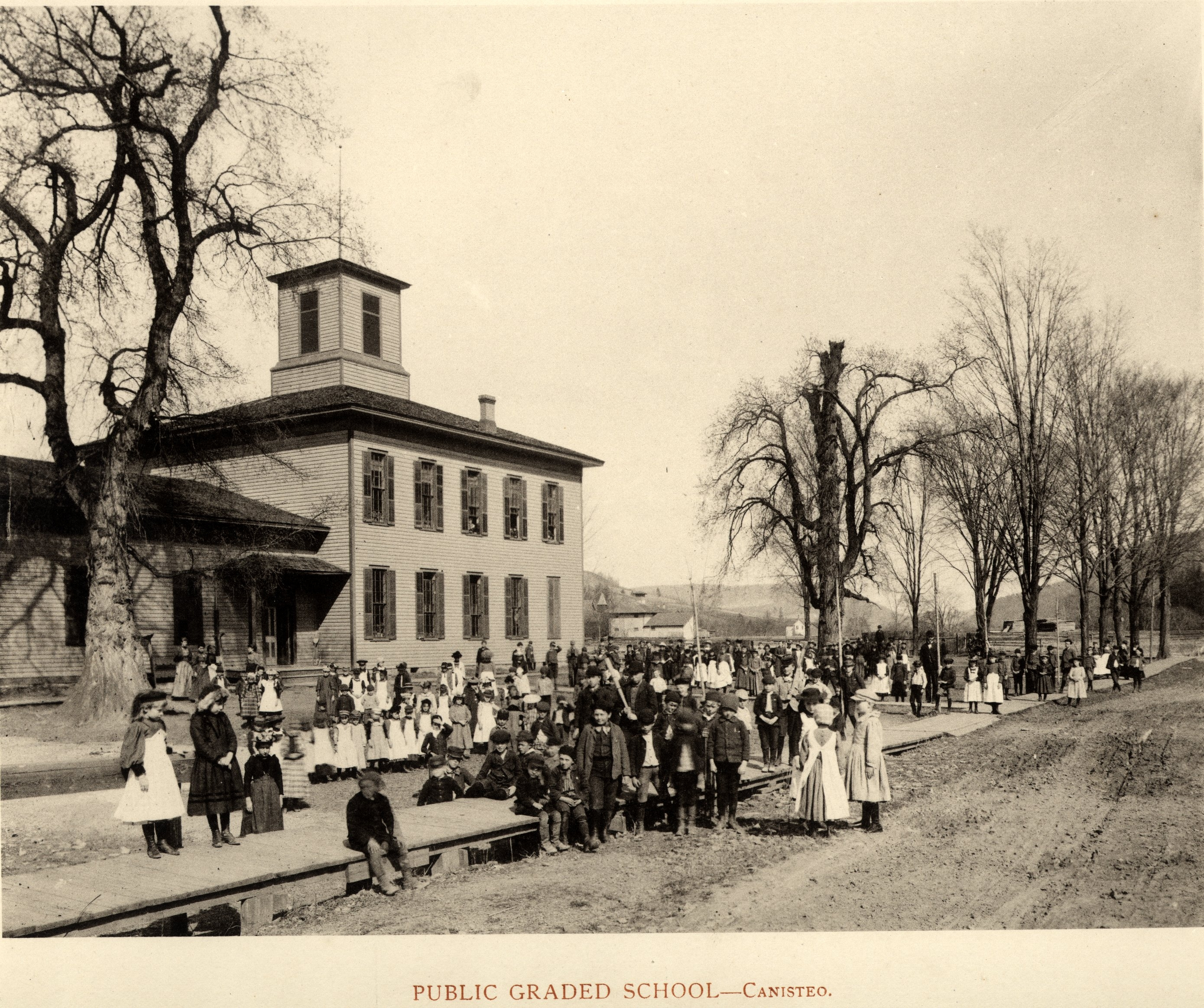 "From a published portfolio", 1891. Canisteo Graded School was Canisteo's first school building. It was located at the west end of Fifth Street. The building was abandoned no later than the 1937 construction of Canisteo Central School. It served as a feed store, with truck scale installed in front, before being demolished about 1952. The site is currently occupied by the Canisteo school district's bus garage.